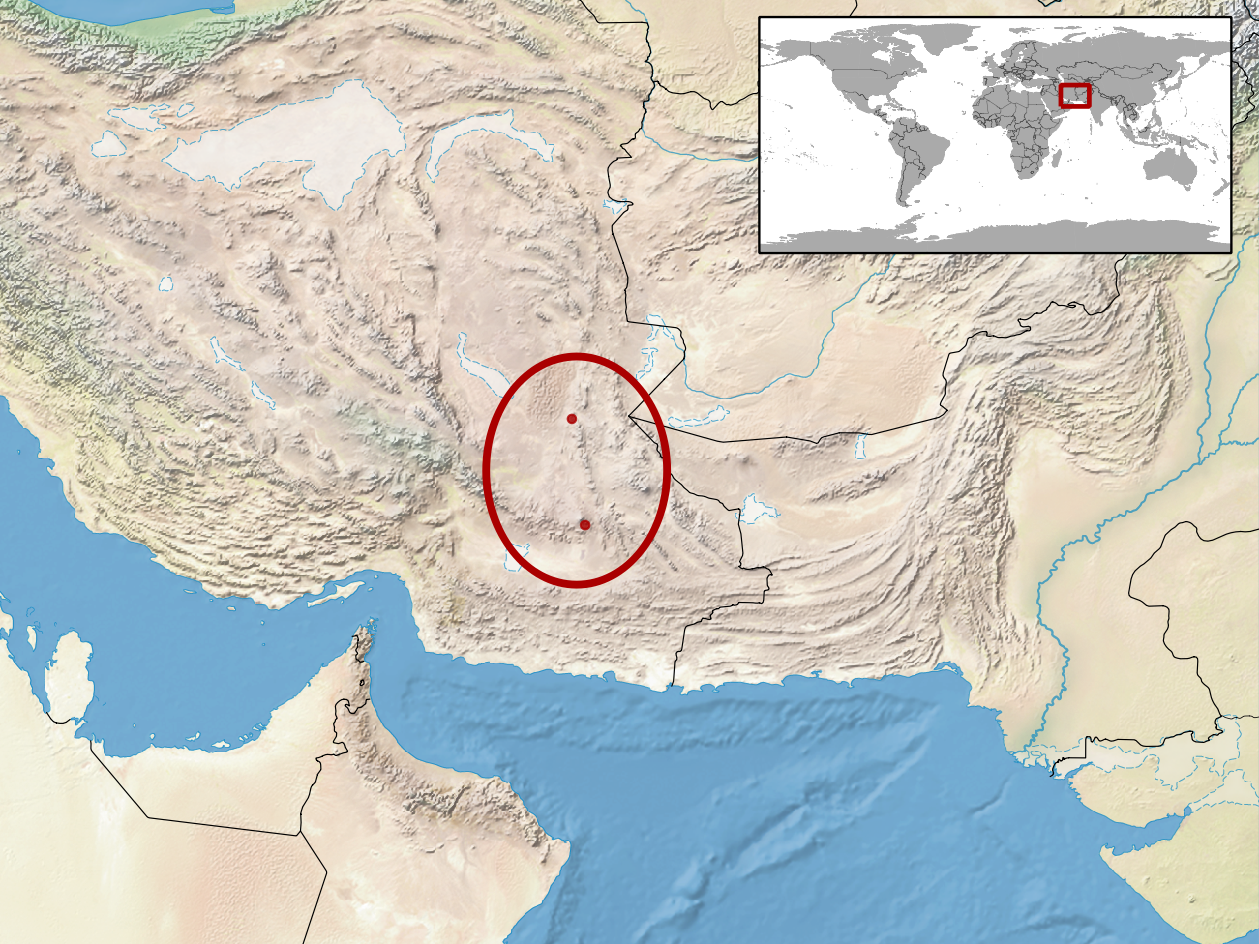 geographic distribution of Cyrtopodion sistanensis (Native: Iran, Islamic Republic of)